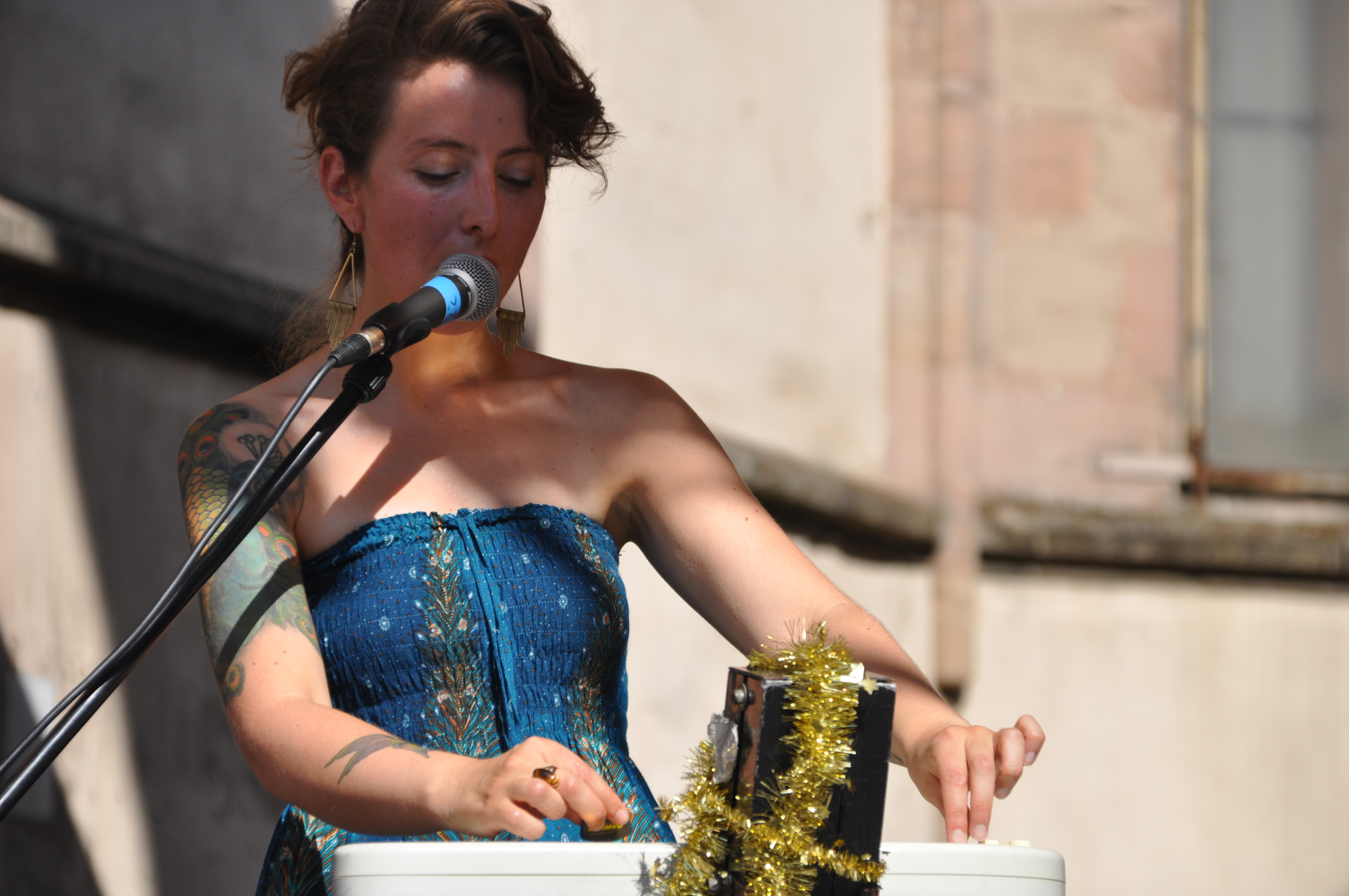 Guðrið Hansdóttir (Faroes), appearance at the 38th music festival "Bardentreffen" 2013 in Nuremberg, Germany, St. Katharina stage